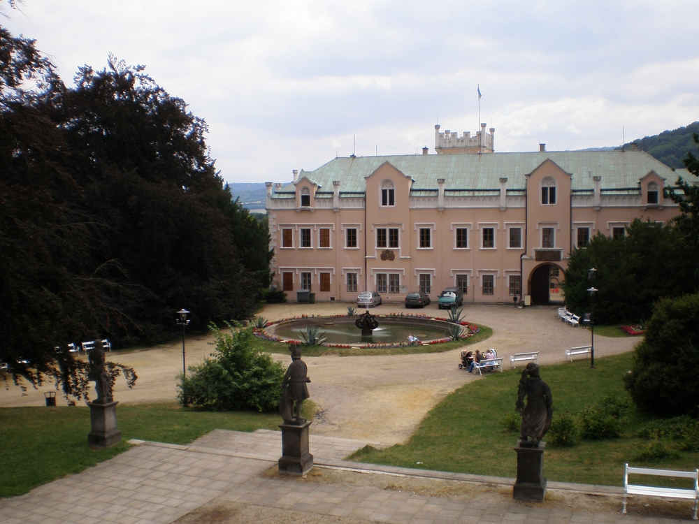 Courtyard and gardens — Klášterec nad Ohří, Bohemia. Located in the town of Klášterec nad Ohří, in the Ústí nad Labem region of the Czech Republic.